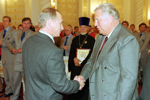 THE KREMLIN, MOSCOW. President Vladimir Putin with Olympic athletes. President Vladimir Putin with President of the National Olympic Committee Vitaly Smirnov.